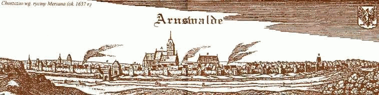 Choszczno (then Arnswalde) on Merian's print from 1637